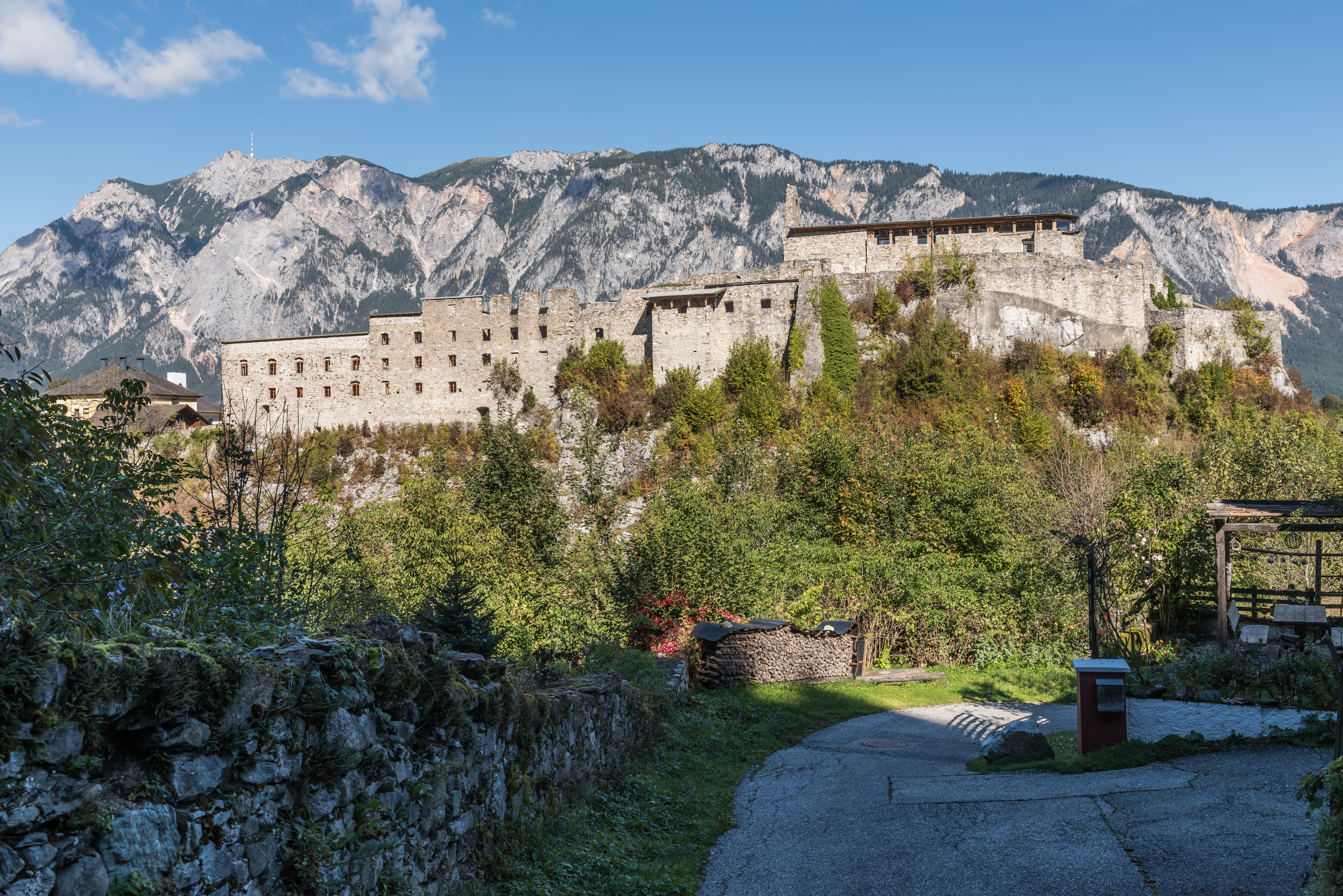 Ruin of the Benedictine monastery, market town Arnoldstein, district Villach Land, Carinthia, Austria, EU